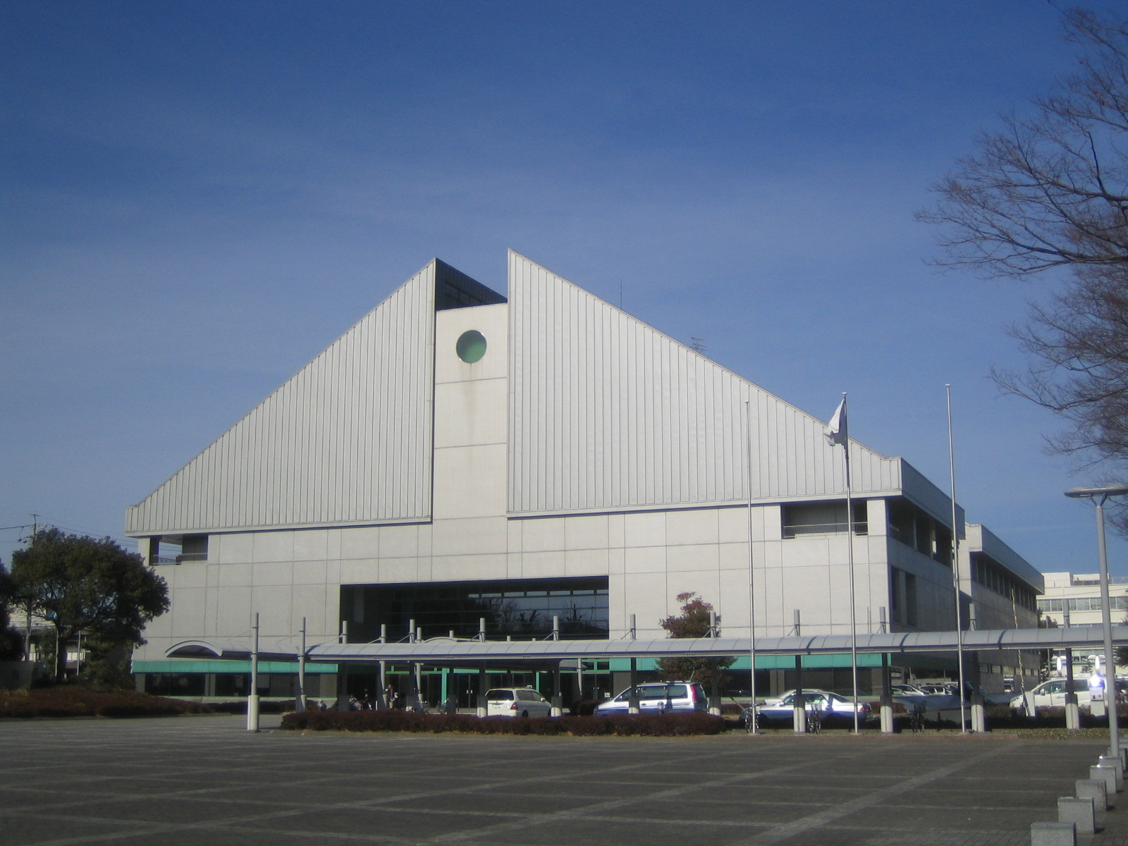 Toyokawa City Gymnasium (豊川市総合体育館), located at Suwa, Toyokawa, Aichi, Japan